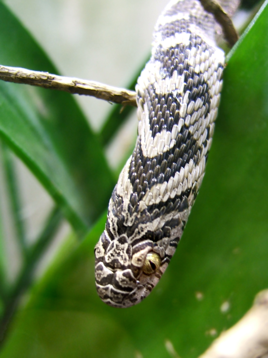 Common Egg-eater, Rhombic Egg-eater